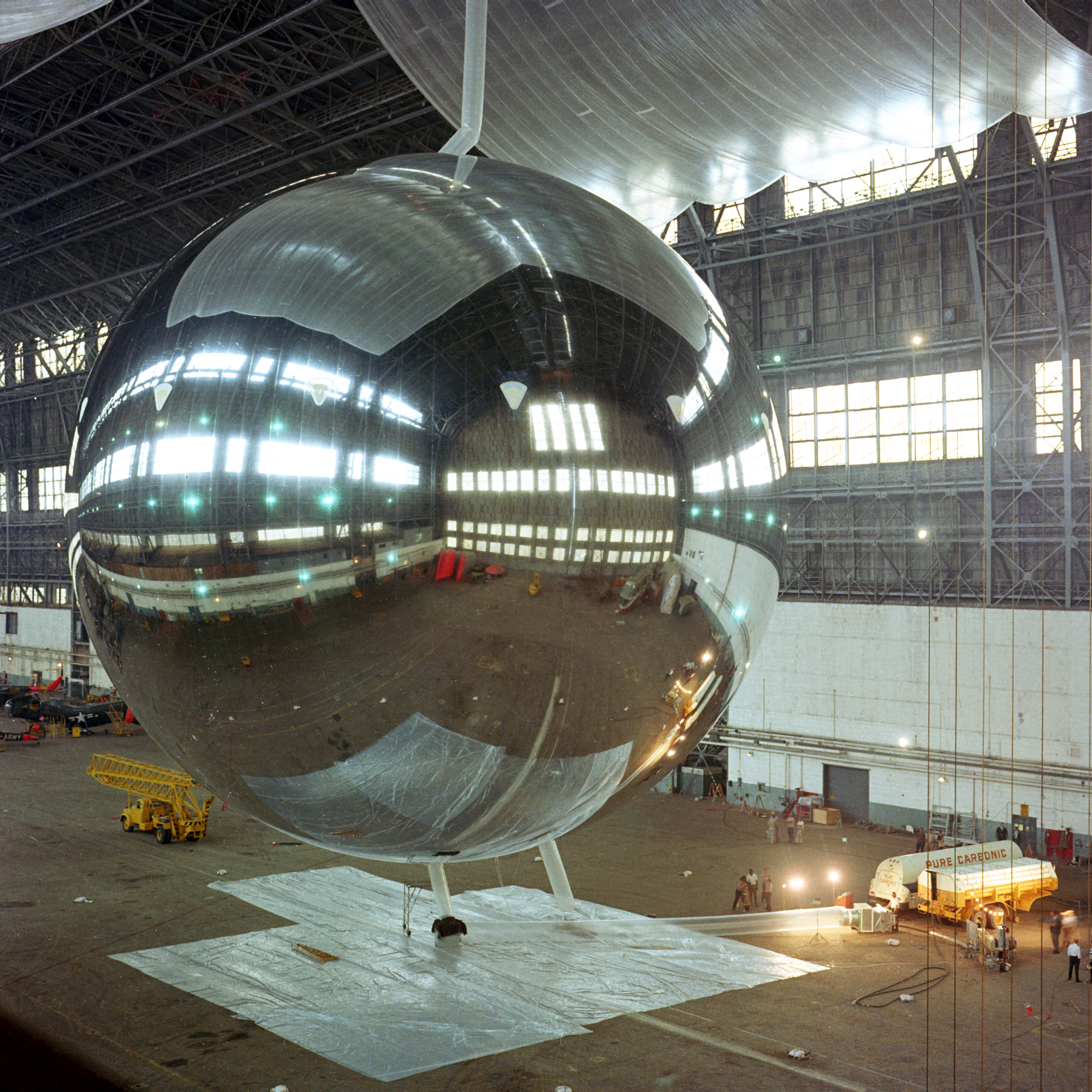 Test inflation of a PAGEOS satellite in a blimp hangar at Weeksville, North Carolina.